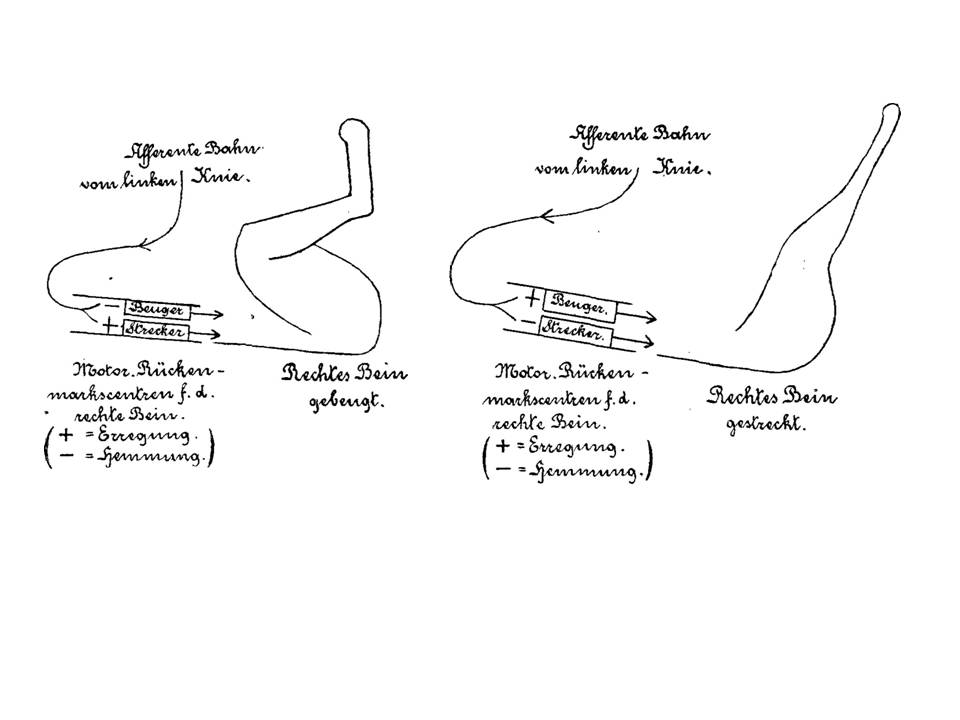 Schematic drawing of crossed patellar reflex